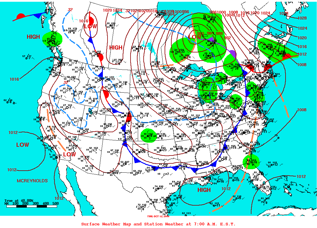 Department of Commerce National Weather Service surface Map for the 12th of October 2006 showing the cold air dome invading the southern Great Lakes and causing a Lake Effect Snow Storm that left up to 60 cm of snow in a narrow band around Buffalo, NY.